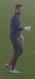 Jayson Leutwiler. Cropped from